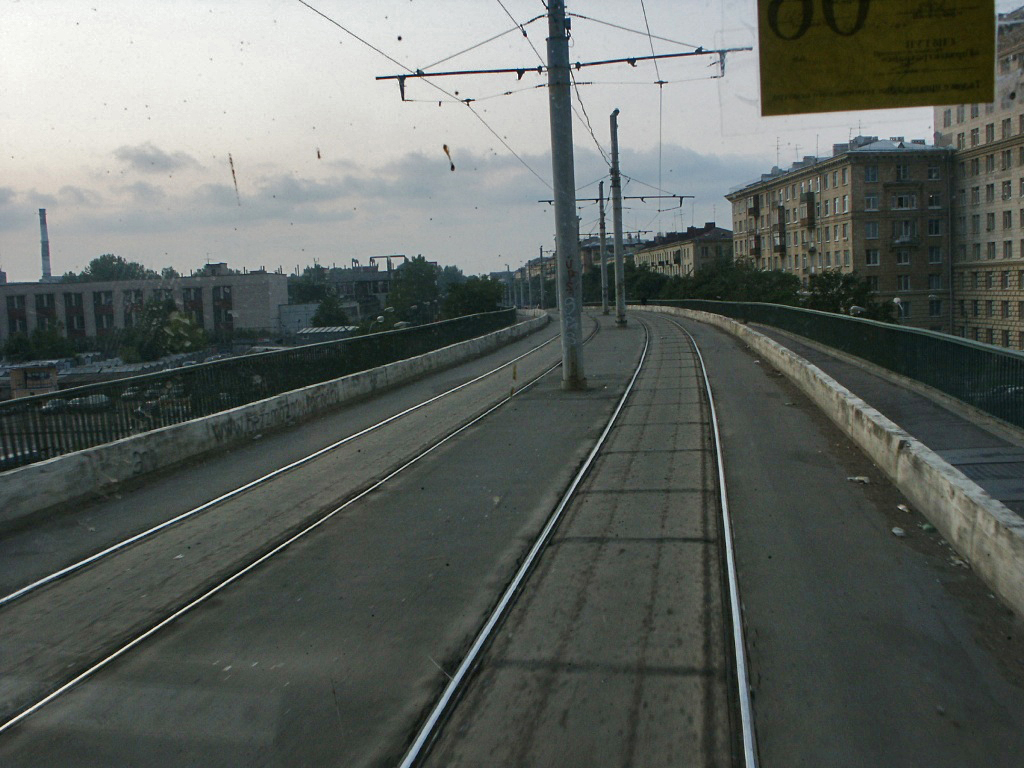 Tram-only viaduct in Saint Petersburg, Russia